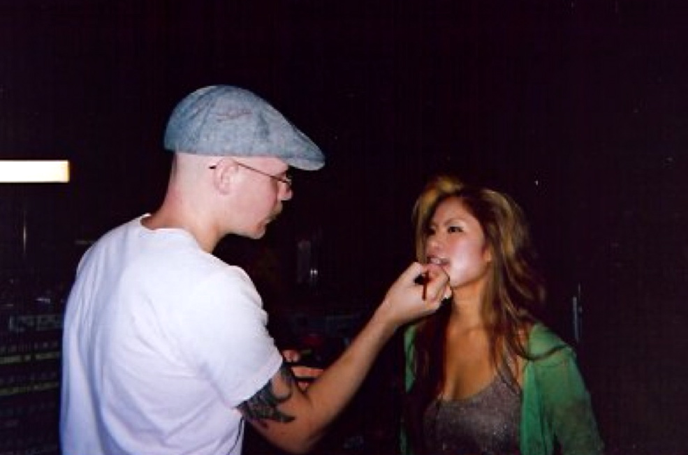 Zarah behind the scenes with the Goo Goo Dolls filming for B InTune TV (TV series) episodes.